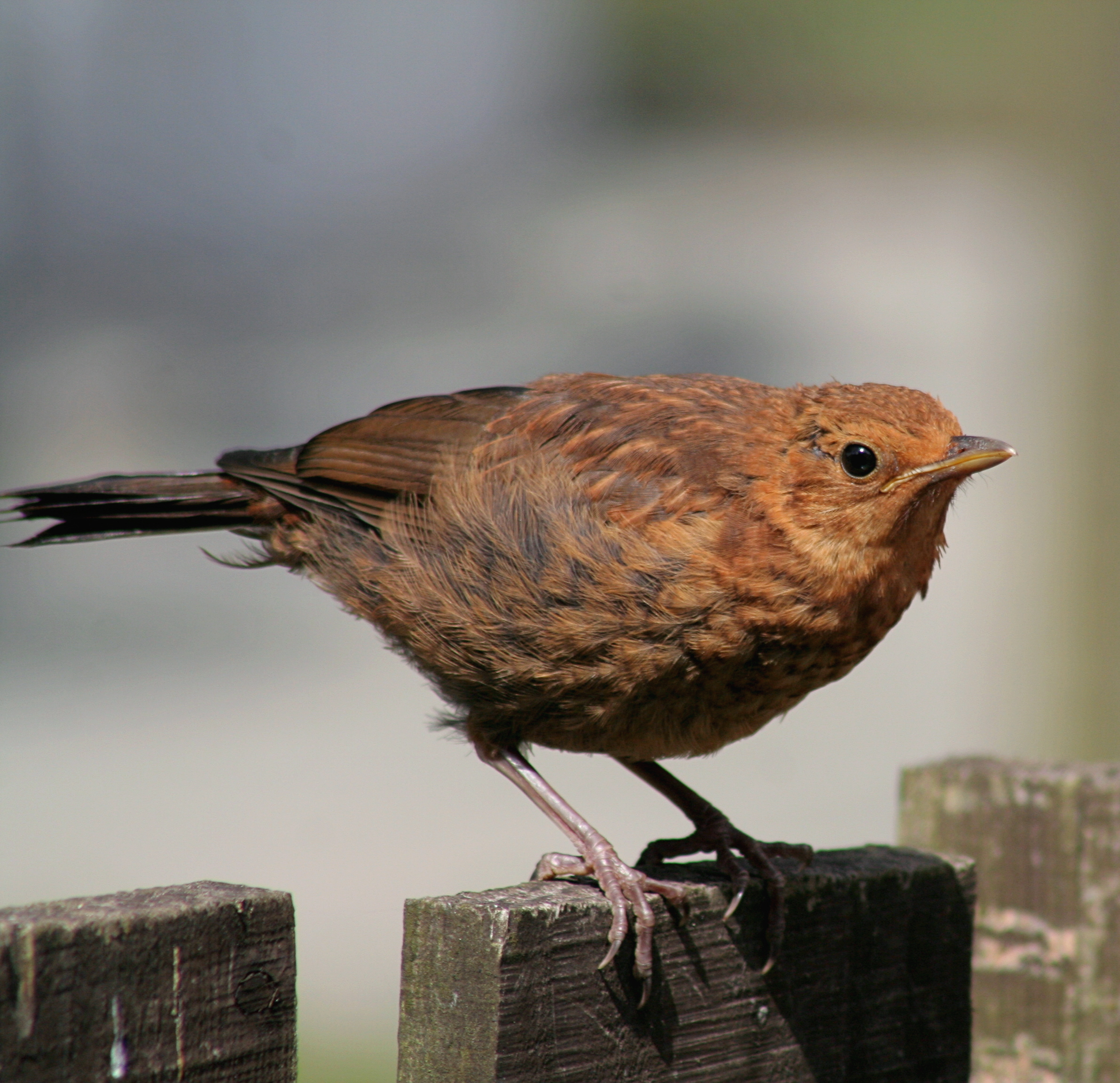 A juvenile Common Blackbird (also called Eurasian Blackbird) in Dornoch, Scotland.